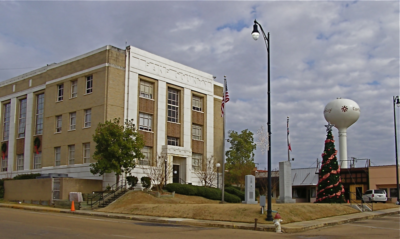 Leake County Courthouse; Carthage, Mississippi; January 2011